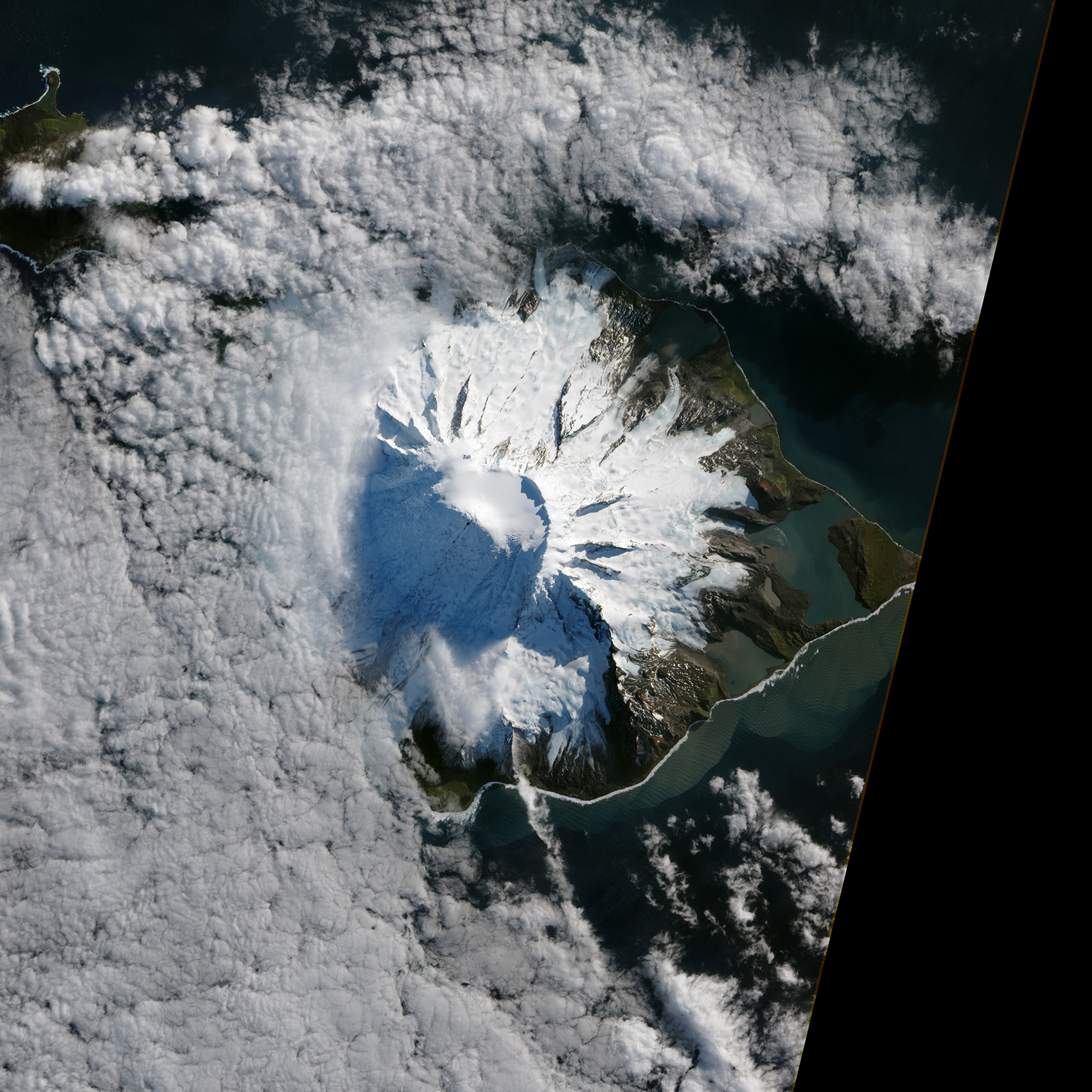 In October 2012, satellites measured subtle signals that suggested volcanic activity on remote Heard Island. These images, captured several months later, show proof of an eruption on Mawson Peak. By April 7, 2013, Mawson's steep-walled summit crater had filled, and a trickle of lava had spilled down the volcano’s southwestern flank. On April 20, the lava flow remained visible and had even widened slightly just below the summit. These natural-color images were collected by the Advanced Land Imager (ALI) on the Earth Observing-1 (EO-1) satellite.